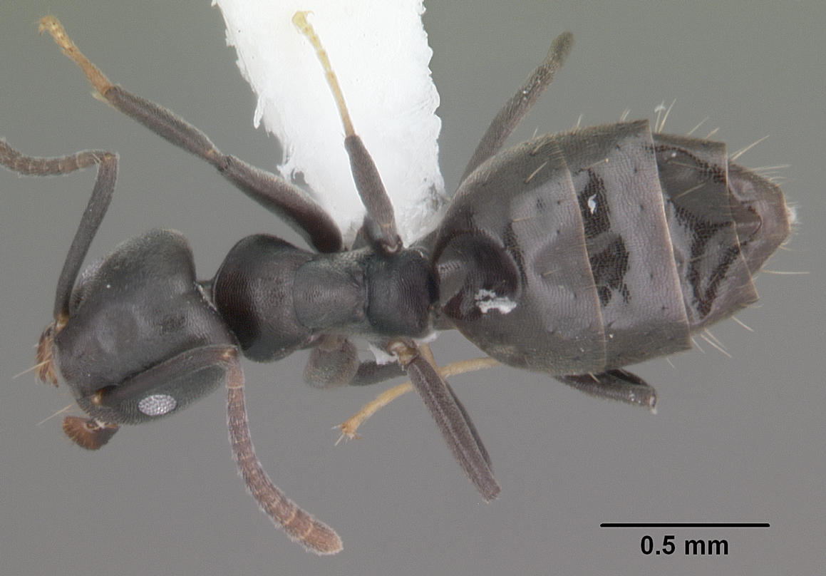 Dorsal view of ant Technomyrmex albipes specimen casent0104343.